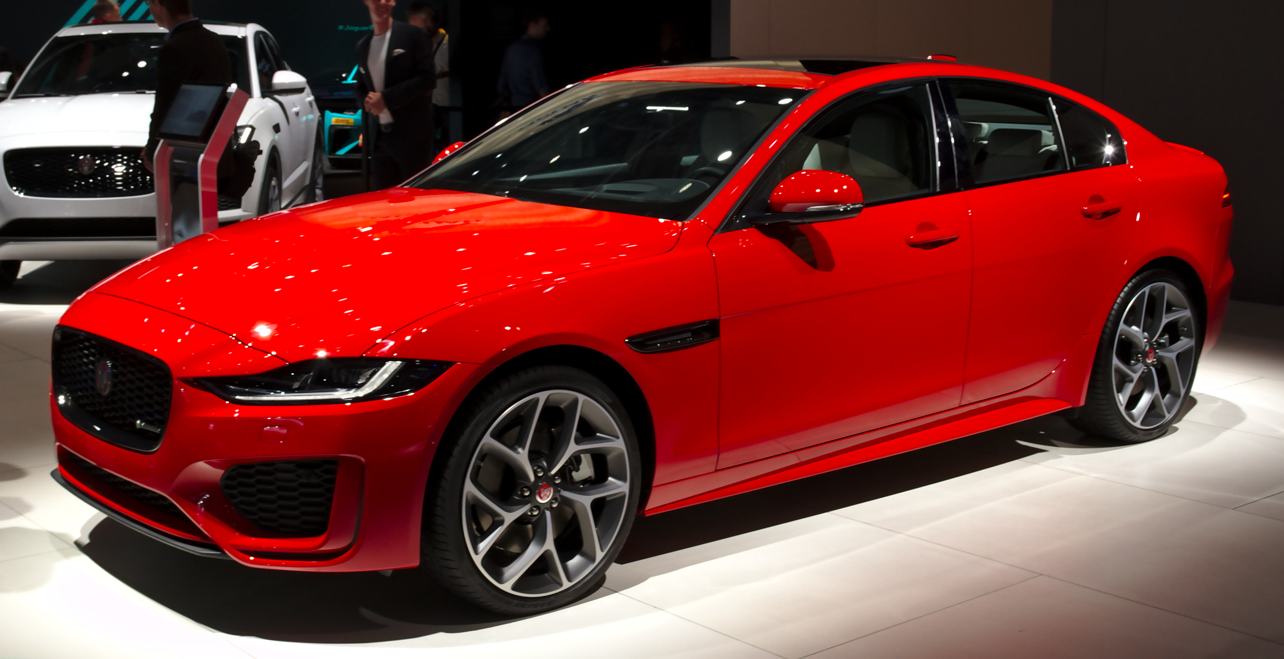 Jaguar_XE at IAA 2019